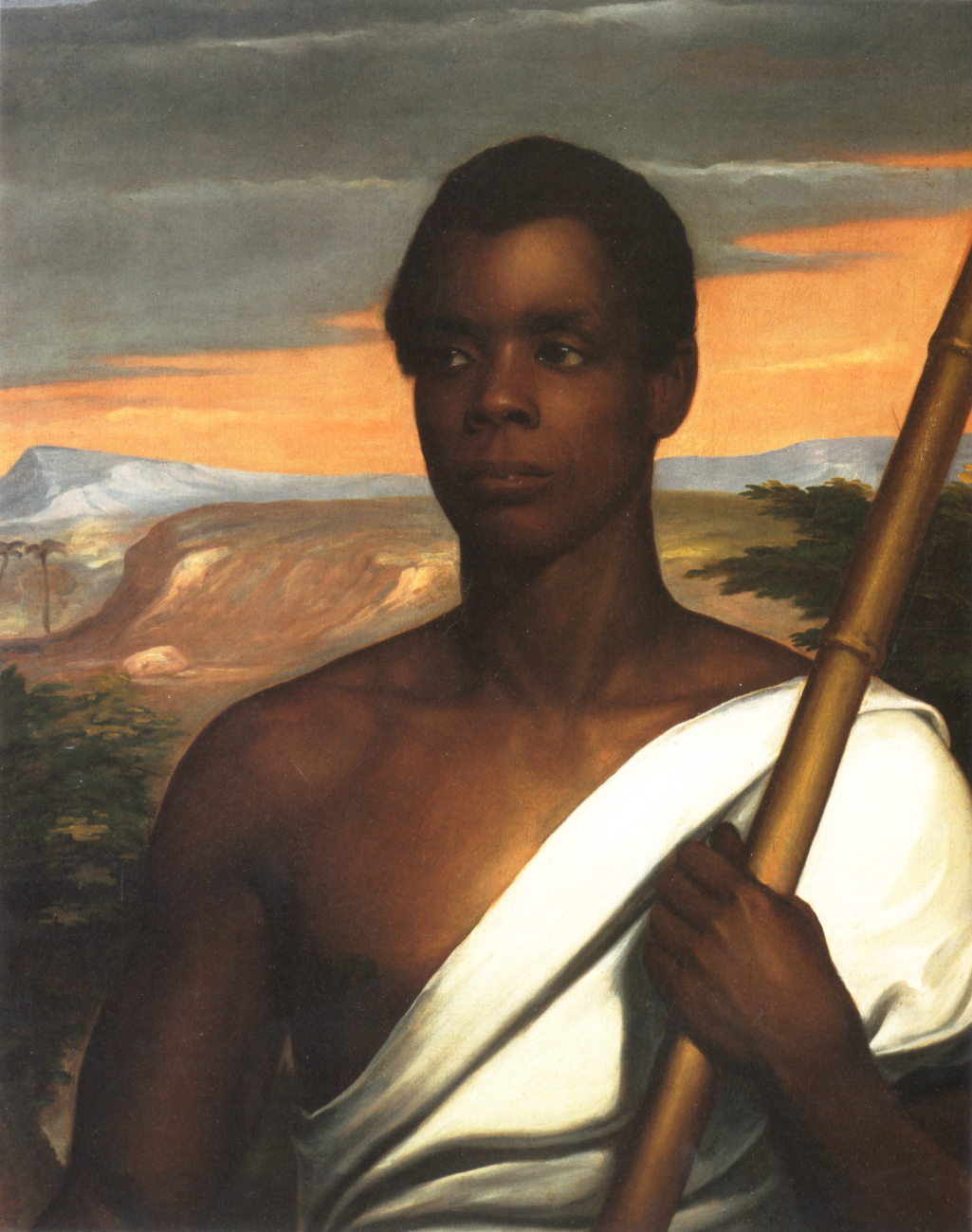 Portrait of Sengbe Pieh (Joseph Cinqué)